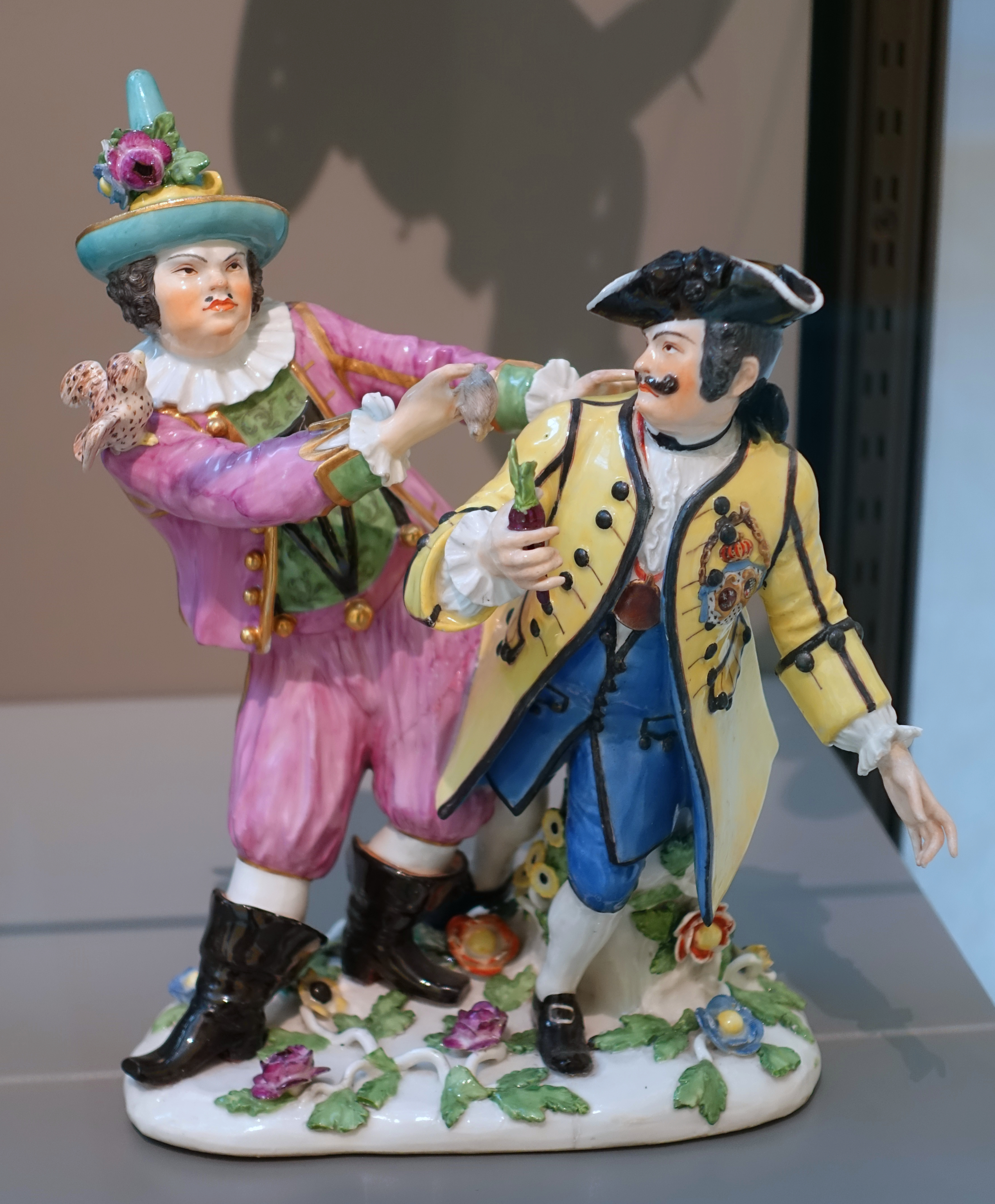 Exhibit in the Wadsworth Atheneum - Hartford, Connecticut, USA. This work is old enough so that it is in the public domain.